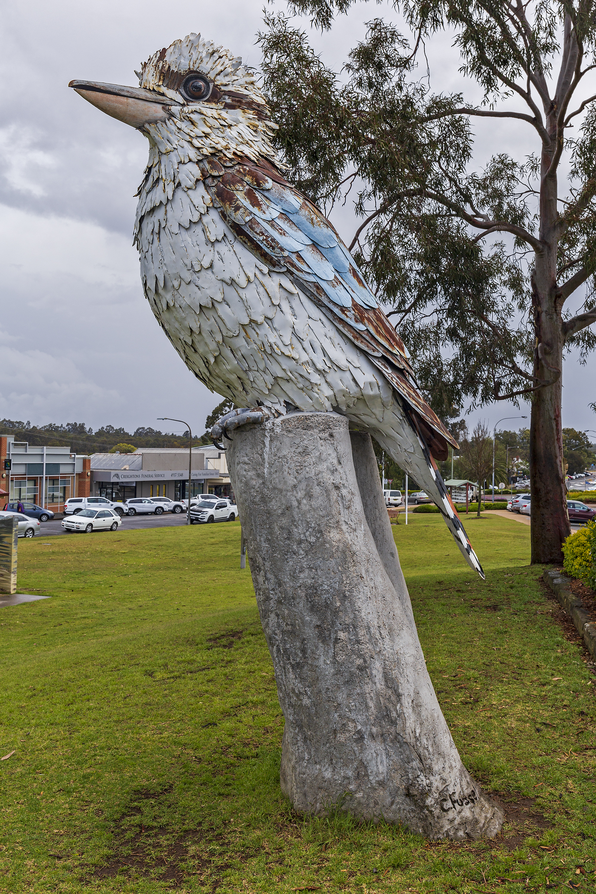 The Kurri Kurri Kookaburra at Rotary Park in Kurri Kurri